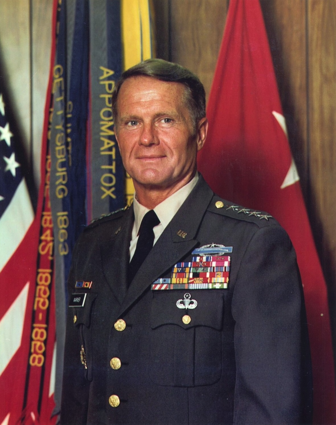 Official photo of Gen. V.F. Warner, CINC U.S. Readiness Command